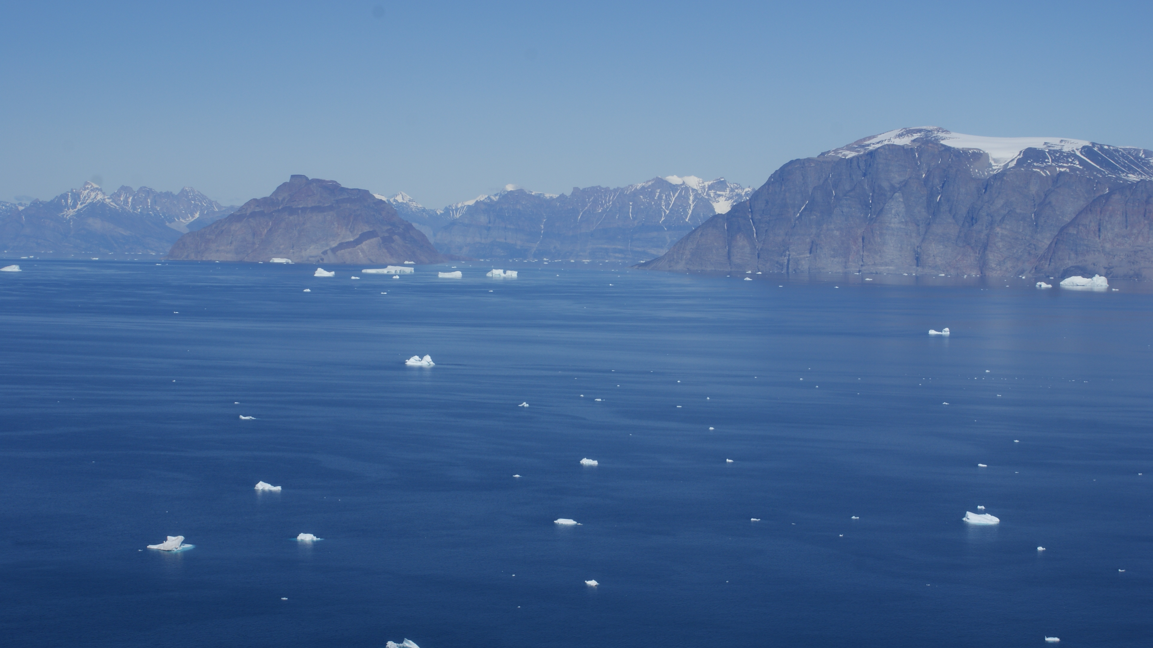 The central part of Uummannaq Fjord, Greenland. Aerial photograph from Air Greenland Bell 212 helicopter during Uummannaq-Qaarsut flight. Salleq Island, Appat Island, and Perlerfiup Nunaa in the background.